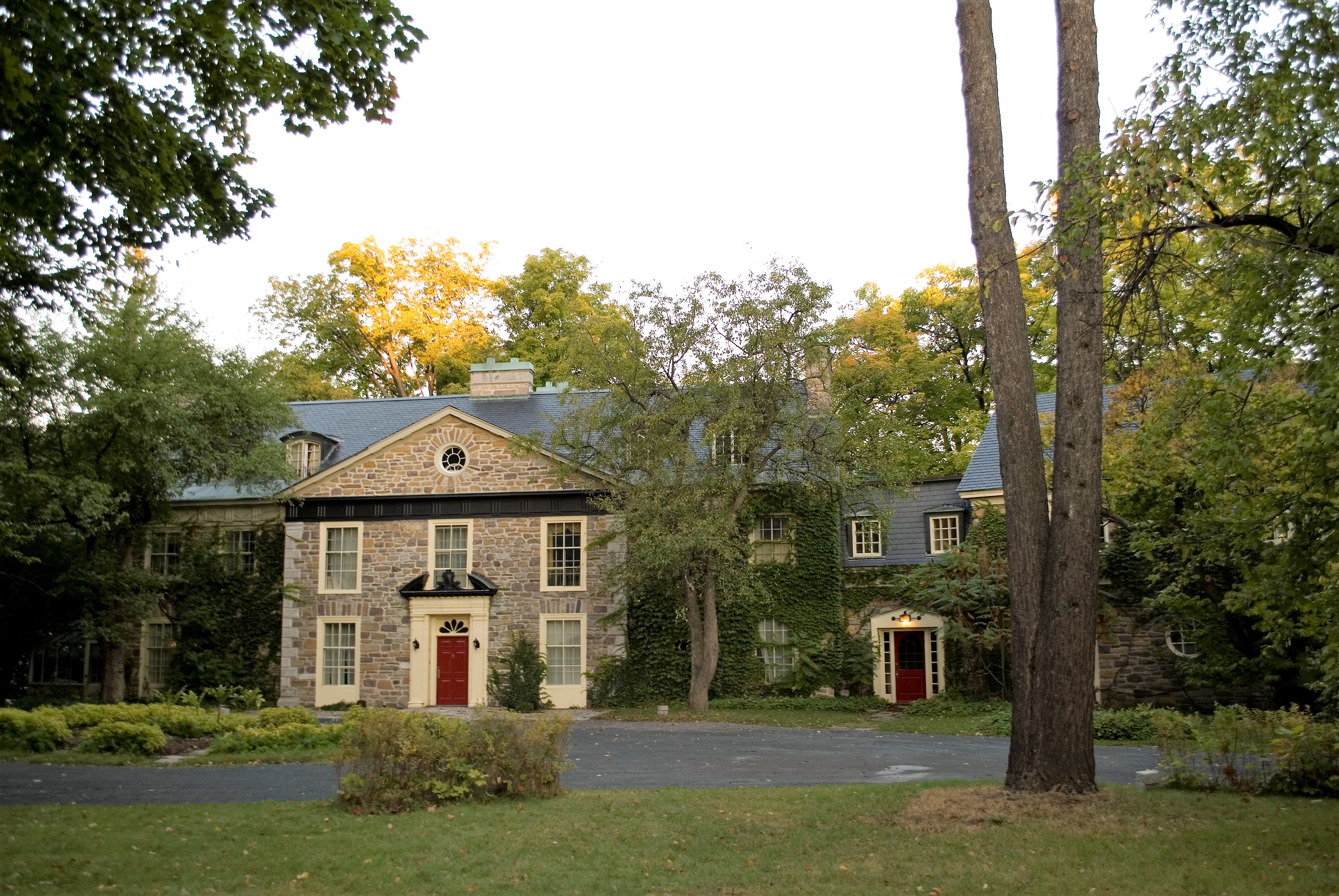 Maison Mary-Dorothy-Molson is one of the few mansions left. Photo taken in the morning.